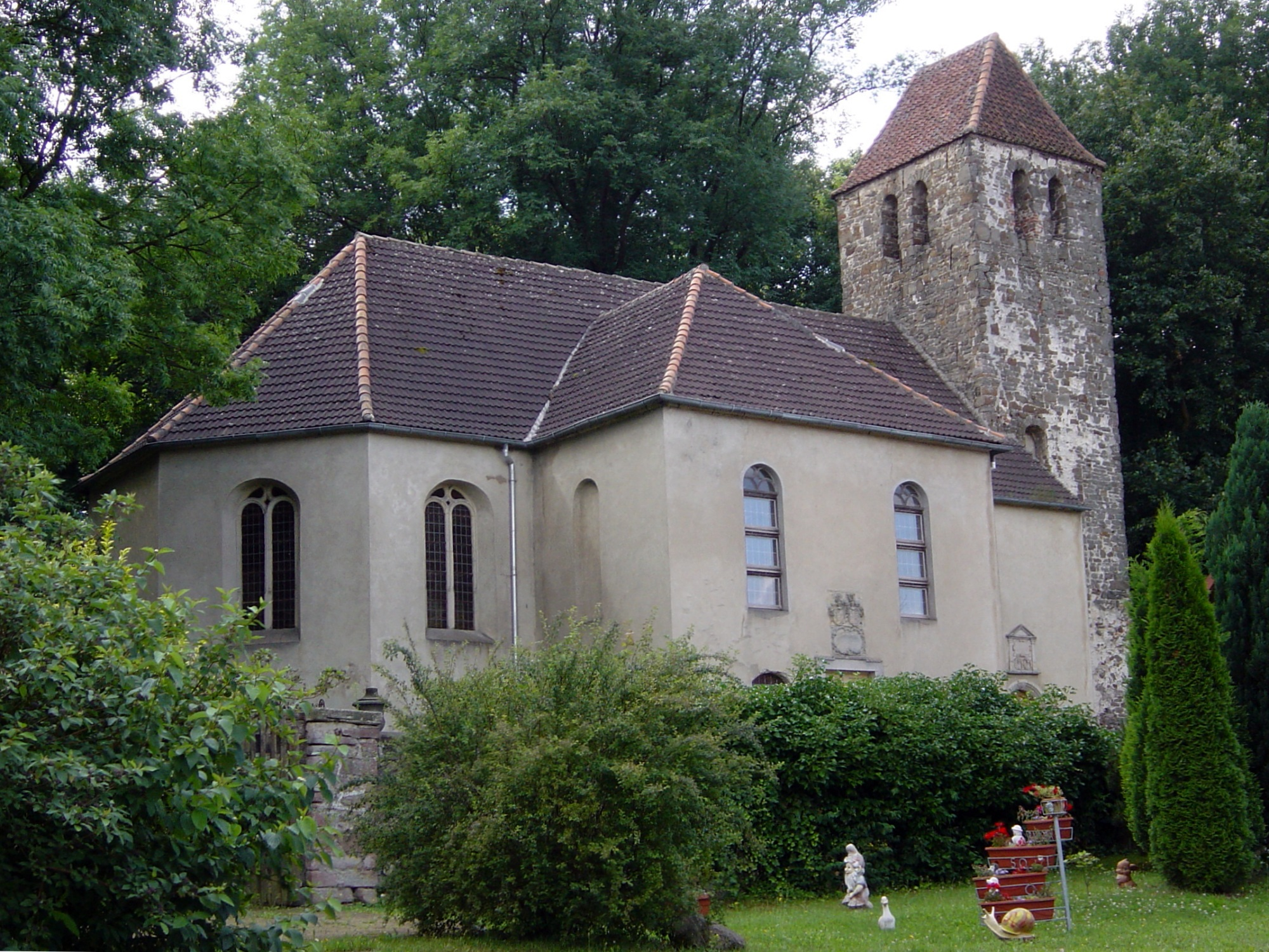 Protestant church in Bebertal II, Germany